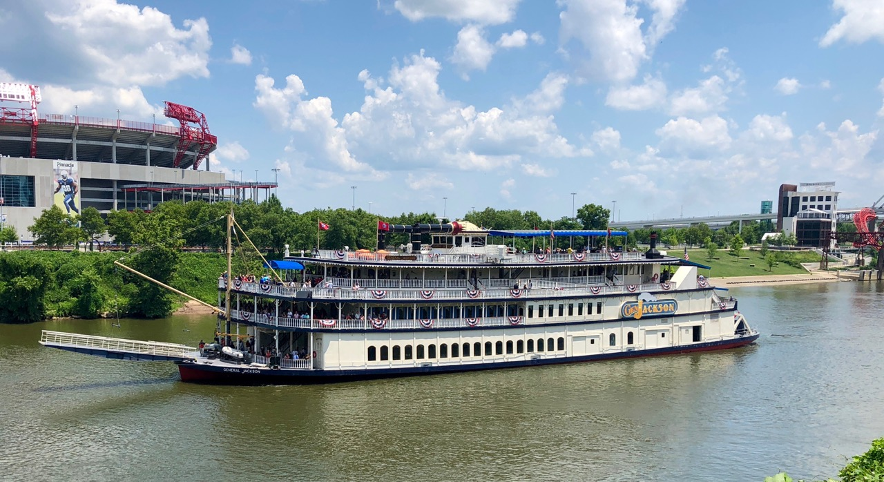 General Jackson Riverboat on the Cumberland River July 4, 2018